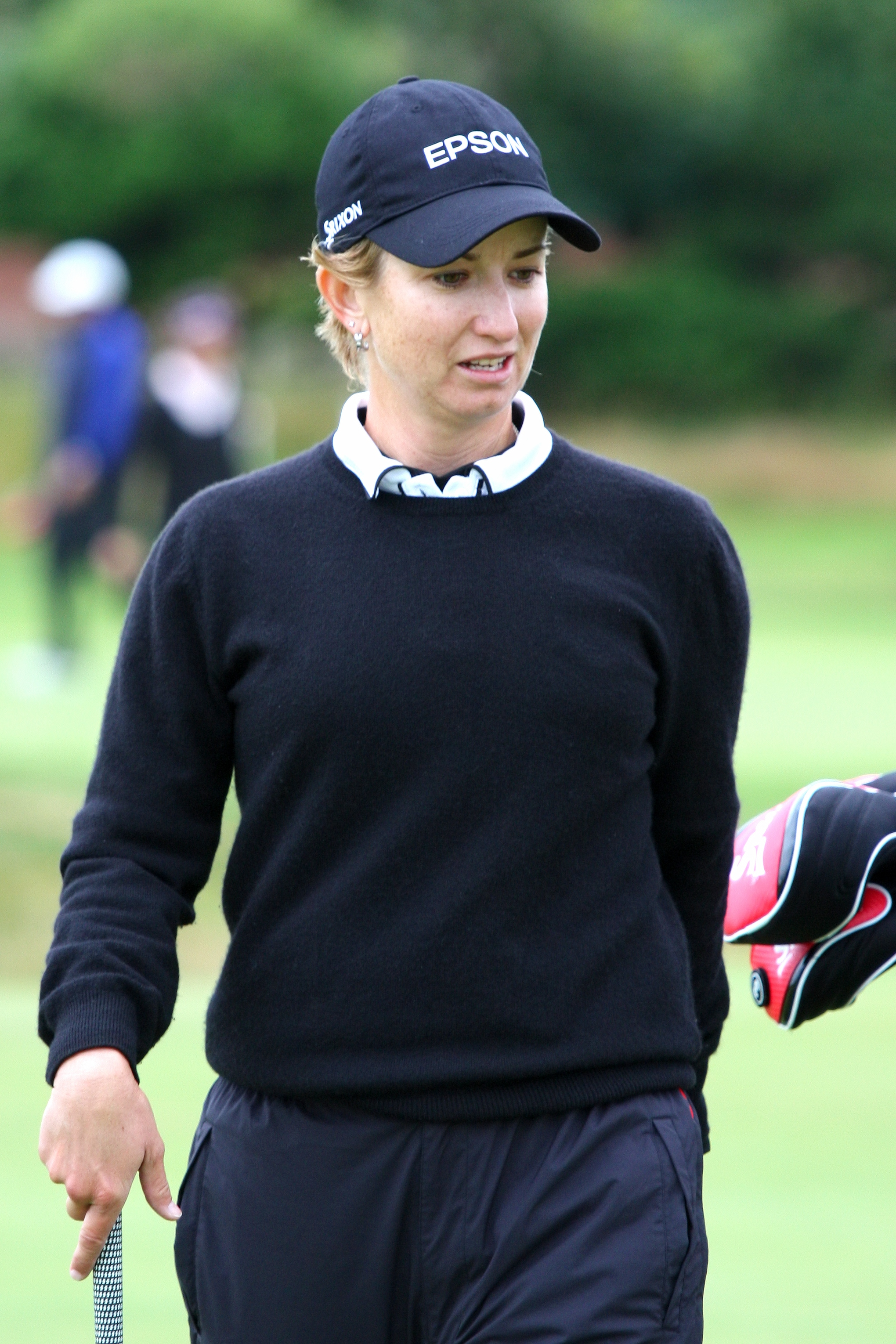 LYTHAM ST ANNES, UNITED KINGDOM - JULY 29: Karrie Webb of Australia next to the 11th green during third practice round before 2009 Ricoh Women's British Open held at Royal Lytham & St Annes on July 29, 2009 in Lytham St Annes, England. (Photo by Wojciech Migda)